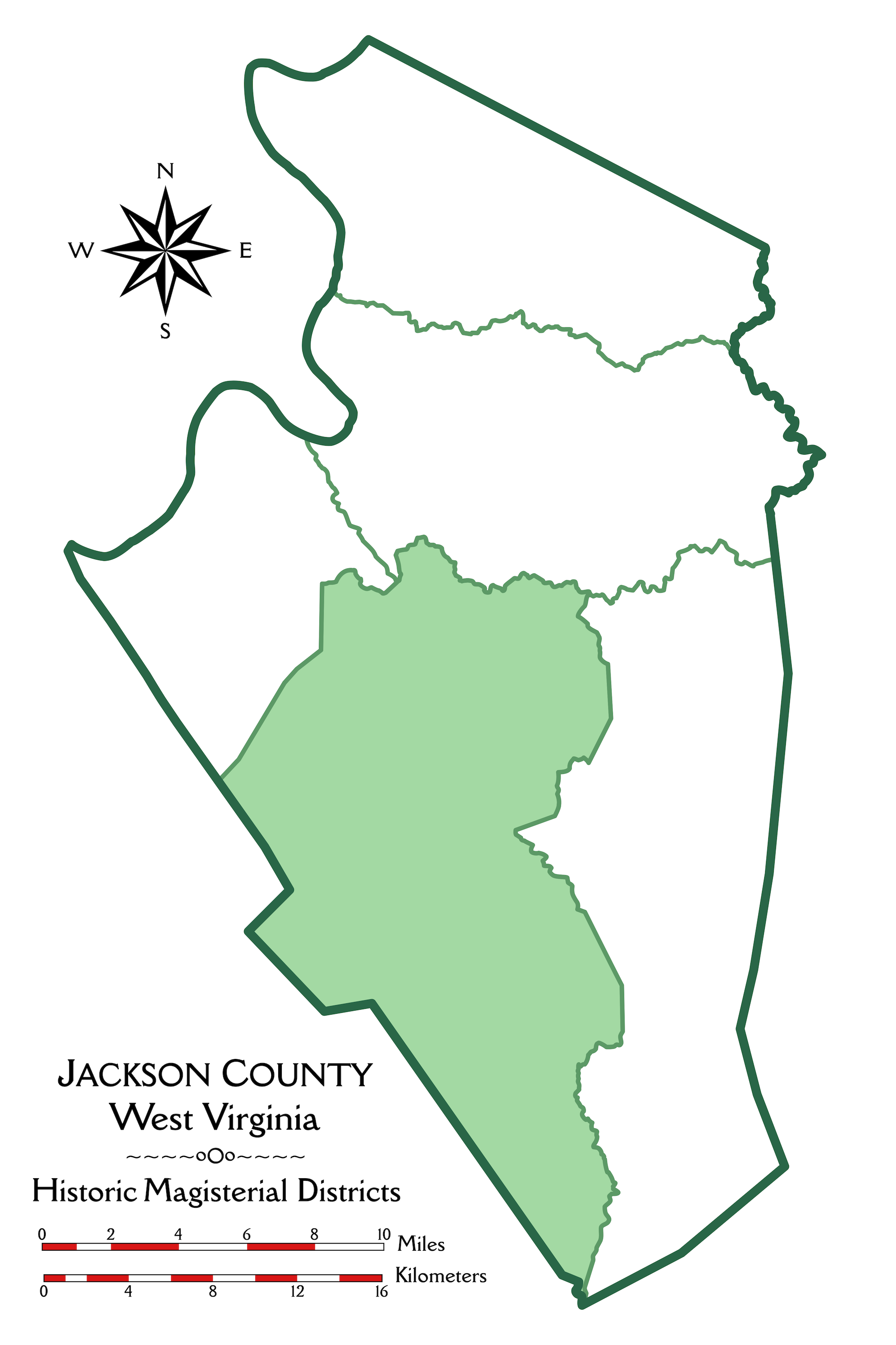 Outline map of Jackson County, West Virginia, showing the boundaries of the historic magisterial districts. Ripley District is shaded.